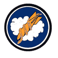 Emblem of the 3d Bomb Squadron